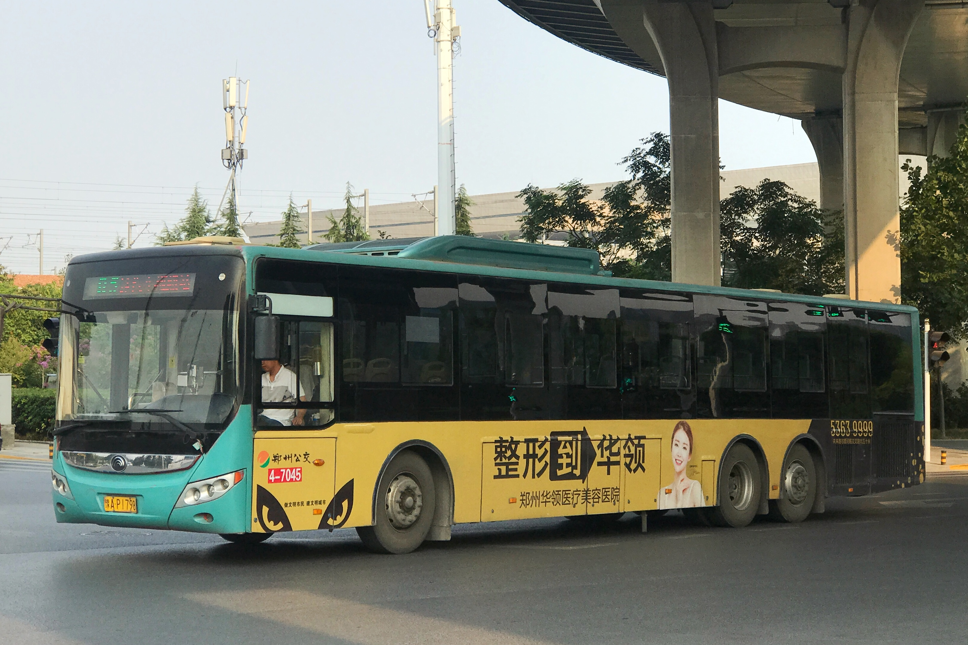 Yutong ZK6140CHEVG1 on Zhengzhou Bus Route 85